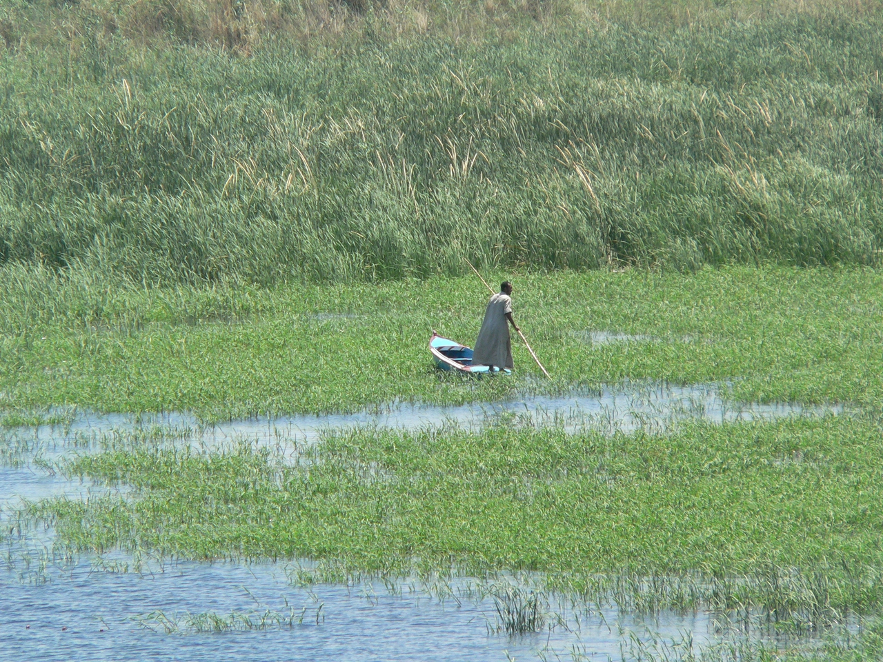 Le Nil Eternel M. Disdero Avril 2005 A man fishing on the Nile.